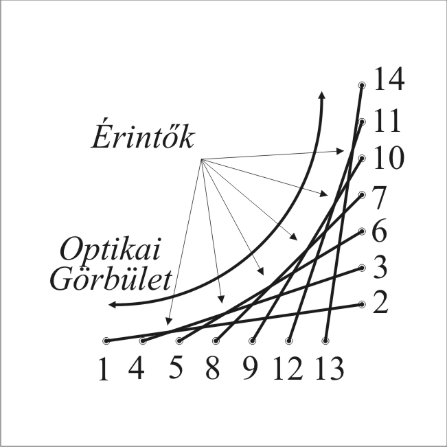 Stringart: Tangents and optical curveRomână: Grafică brodată: Tangente şi curbura optică